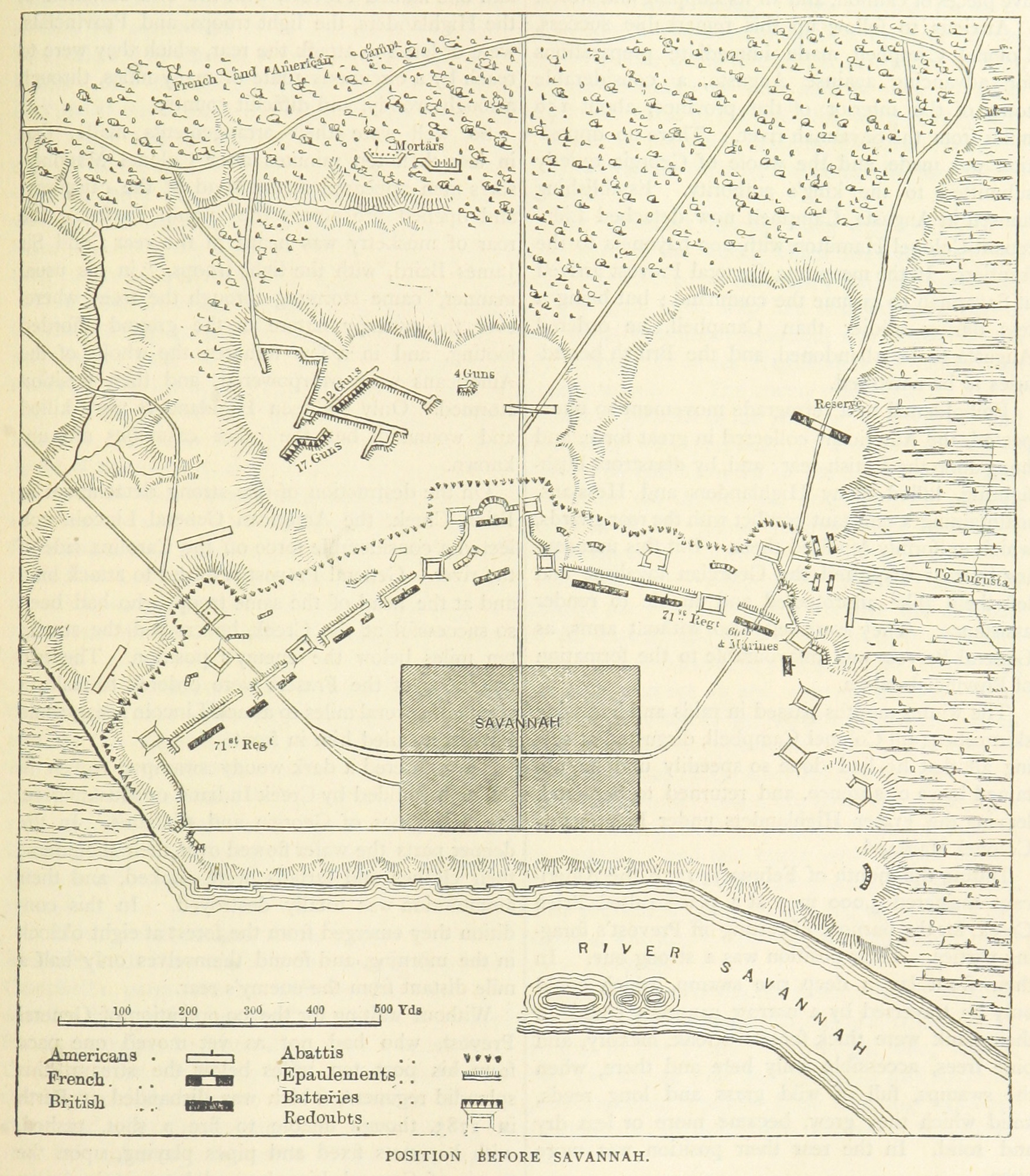 A map of the positions of both sides before the 1779 Siege of Savannah.